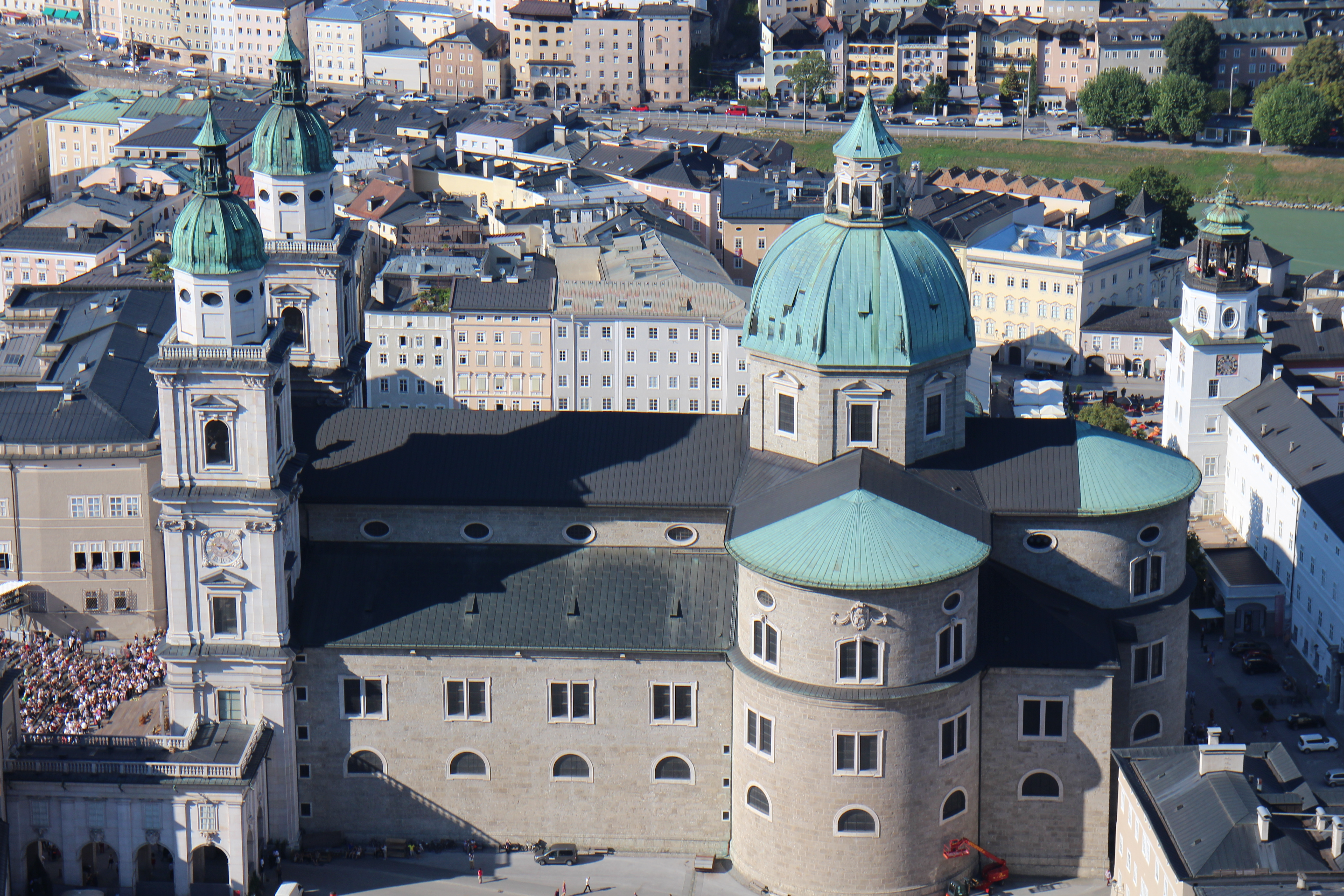 Views from Hohensalzburg Castle